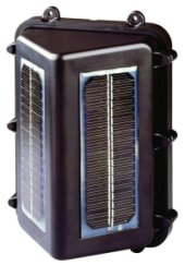 RailRider Photo